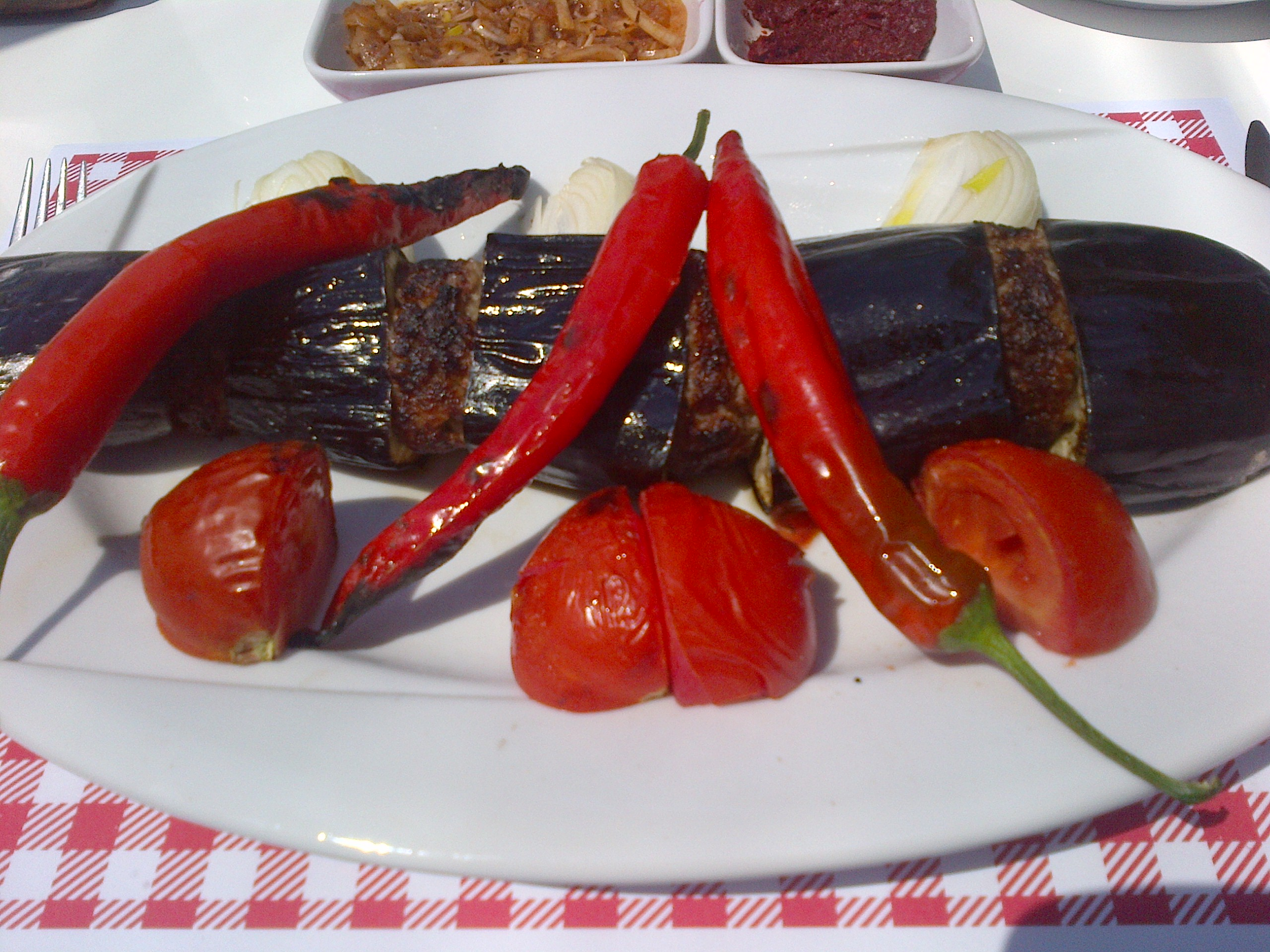 Eggplant kebab ("patlıcan kebap" or "patlıcanlı kebap") from Turkey and the Urfa pepper "isot".